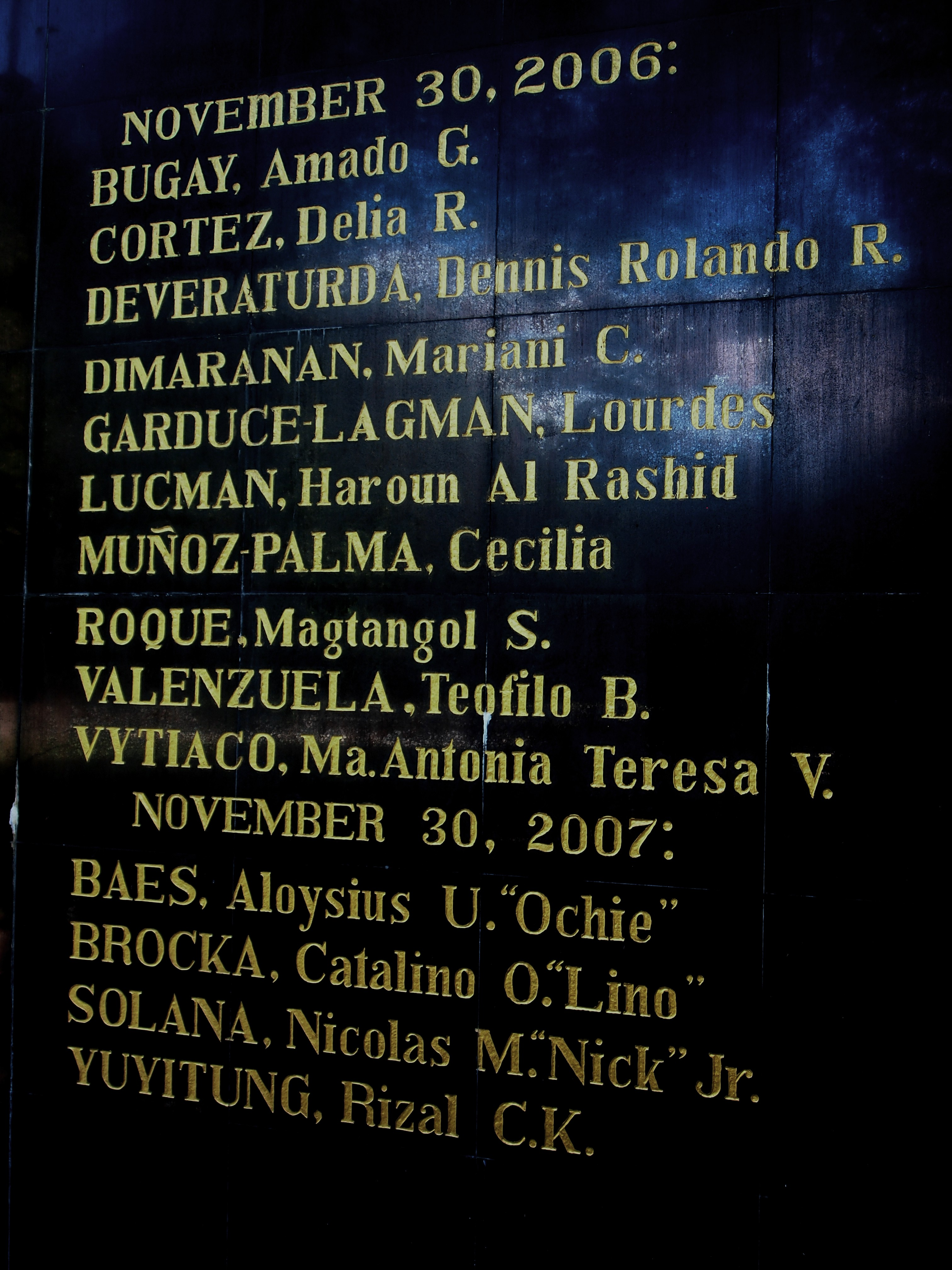 Detail of the Wall of Remembrance at the Bantayog ng mga Bayani, photographed at noon on 15 November 2018, showing names from the 2006 and 2007 batches of Bantayog honorees